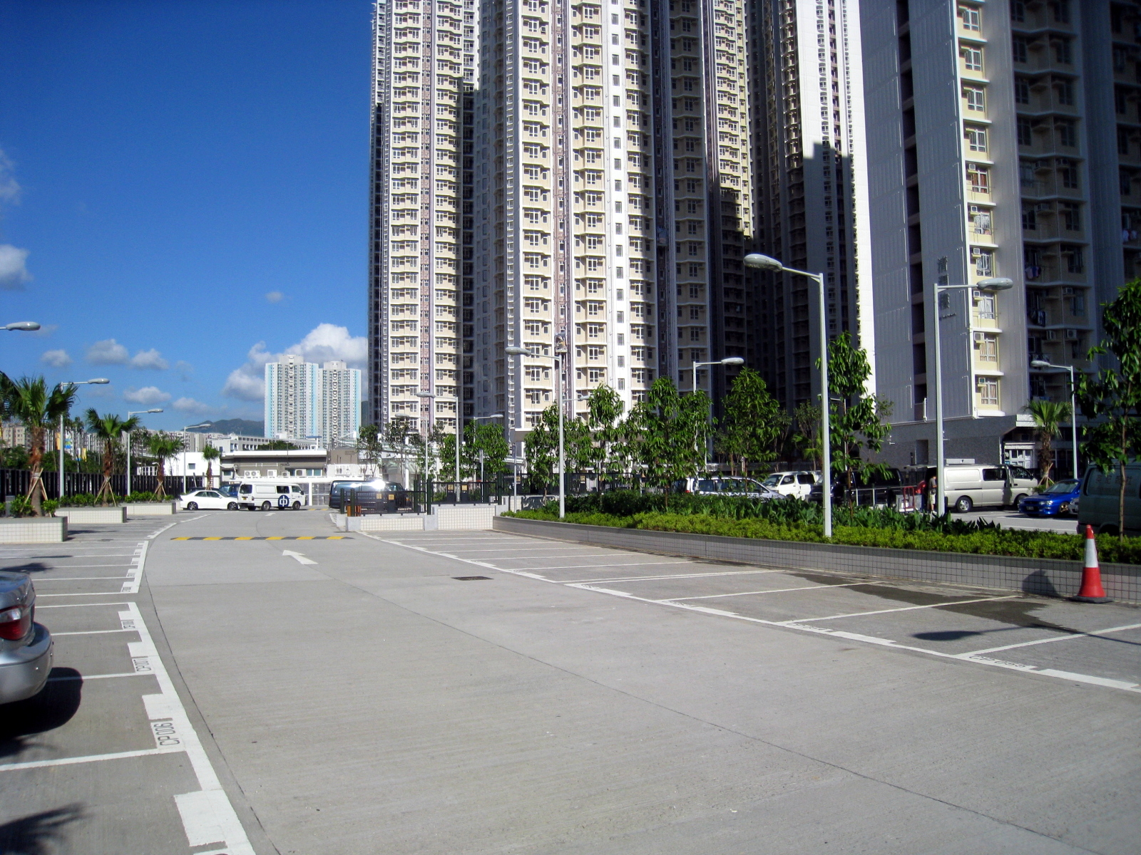 Ching Ho Estate Carpark 清河邨